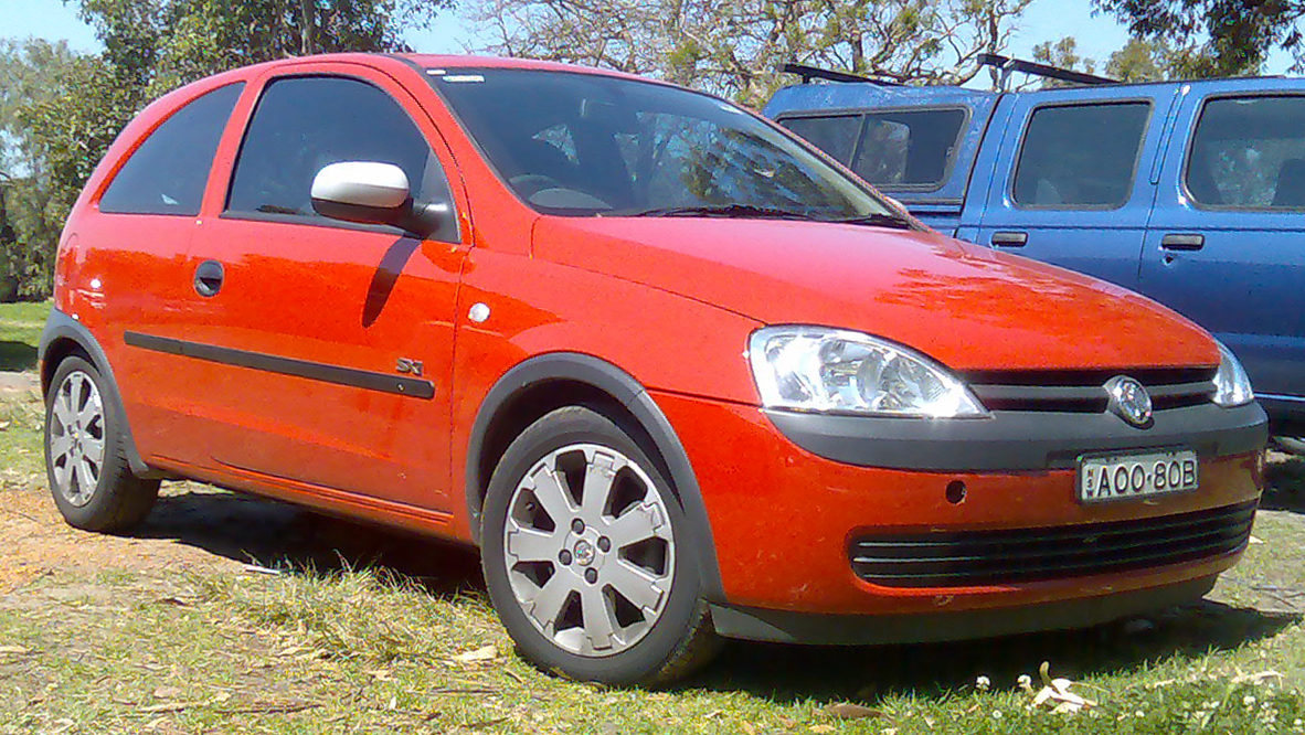 2003 Holden Barina (XC MY03) SXi 3-door hatchback. Photographed in Gymea, New South Wales, Australia.